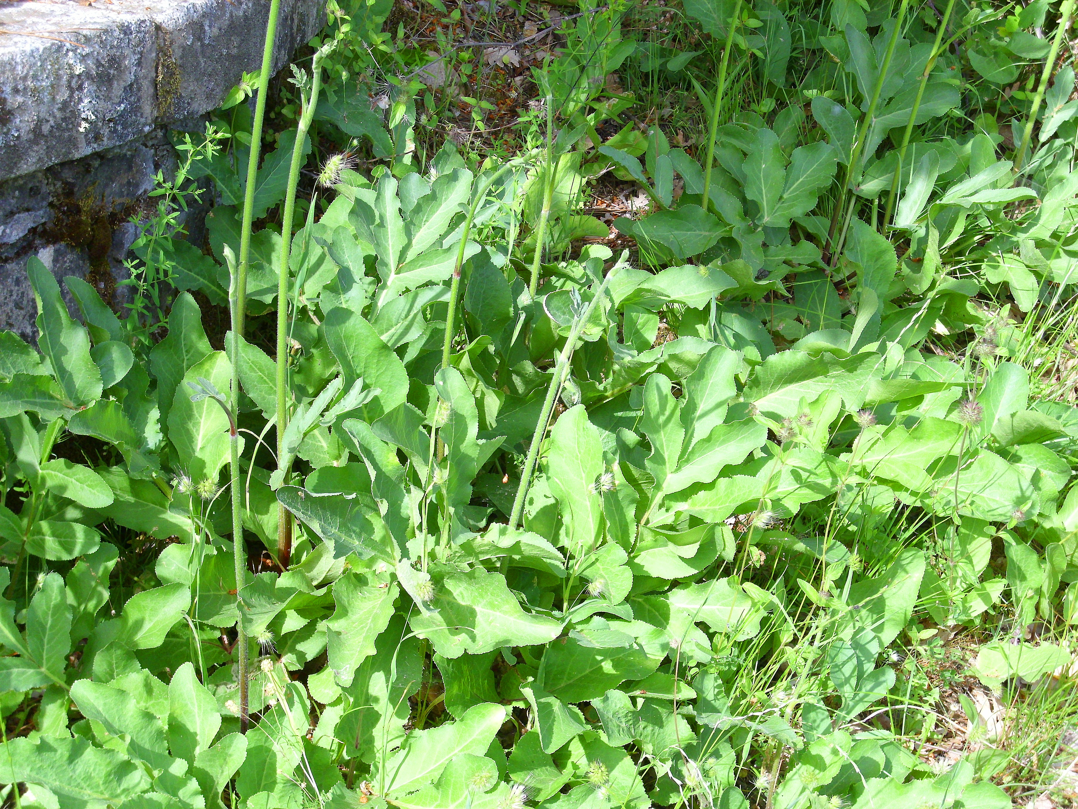 Magydaris panacifolia leaves, Sierra Madrona, Spain